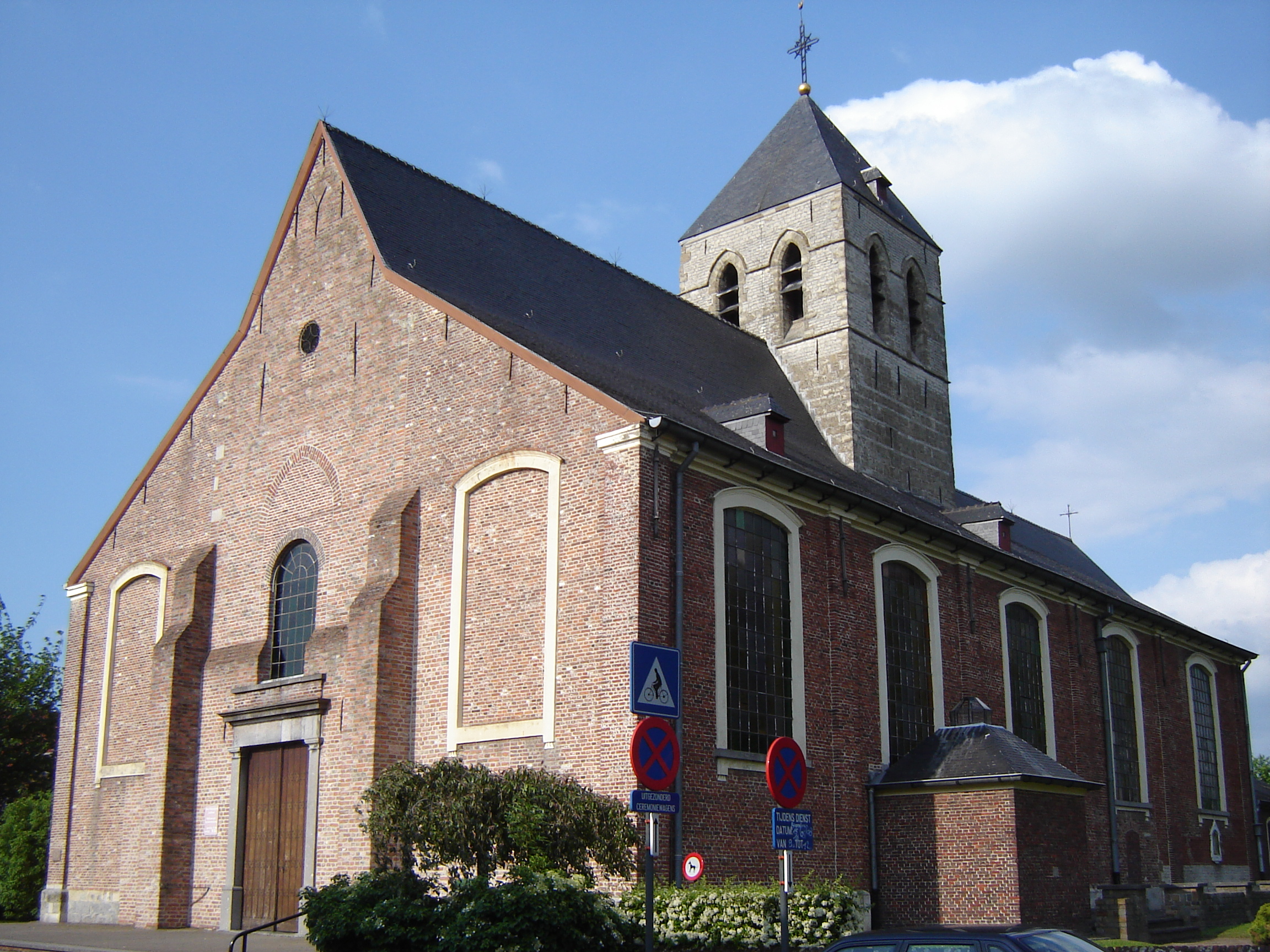 Church of Saint-Nicholas in Lochristi. Lochristi, East Flanders, Belgium